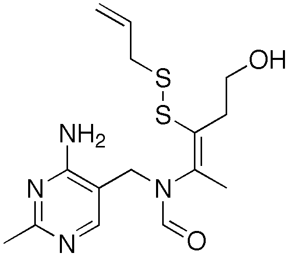 Chemical structure of allithiamine